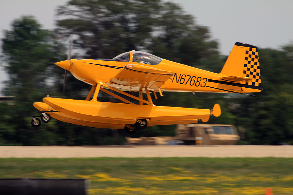 2007 Johnson Daniel H Iii VANS RV-7 C/N 72630